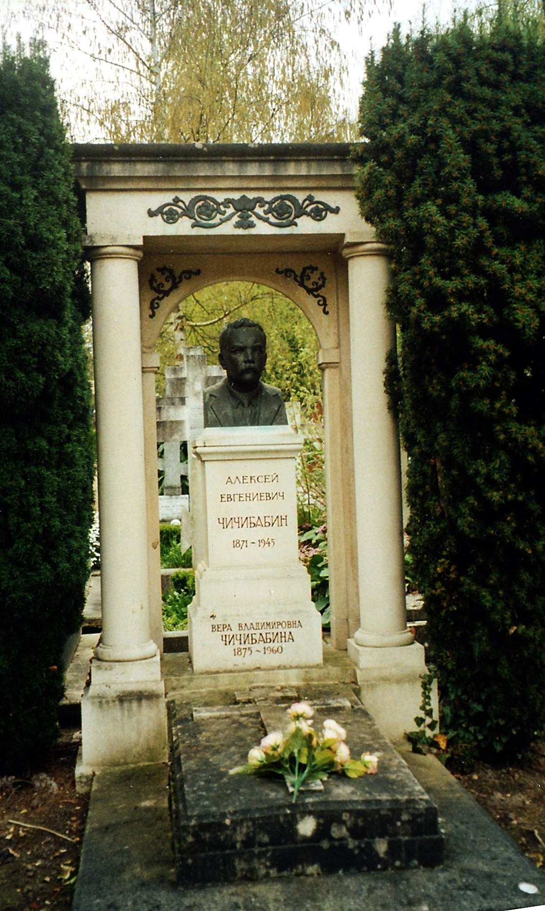 Chemiker Tschichibabin and his wife